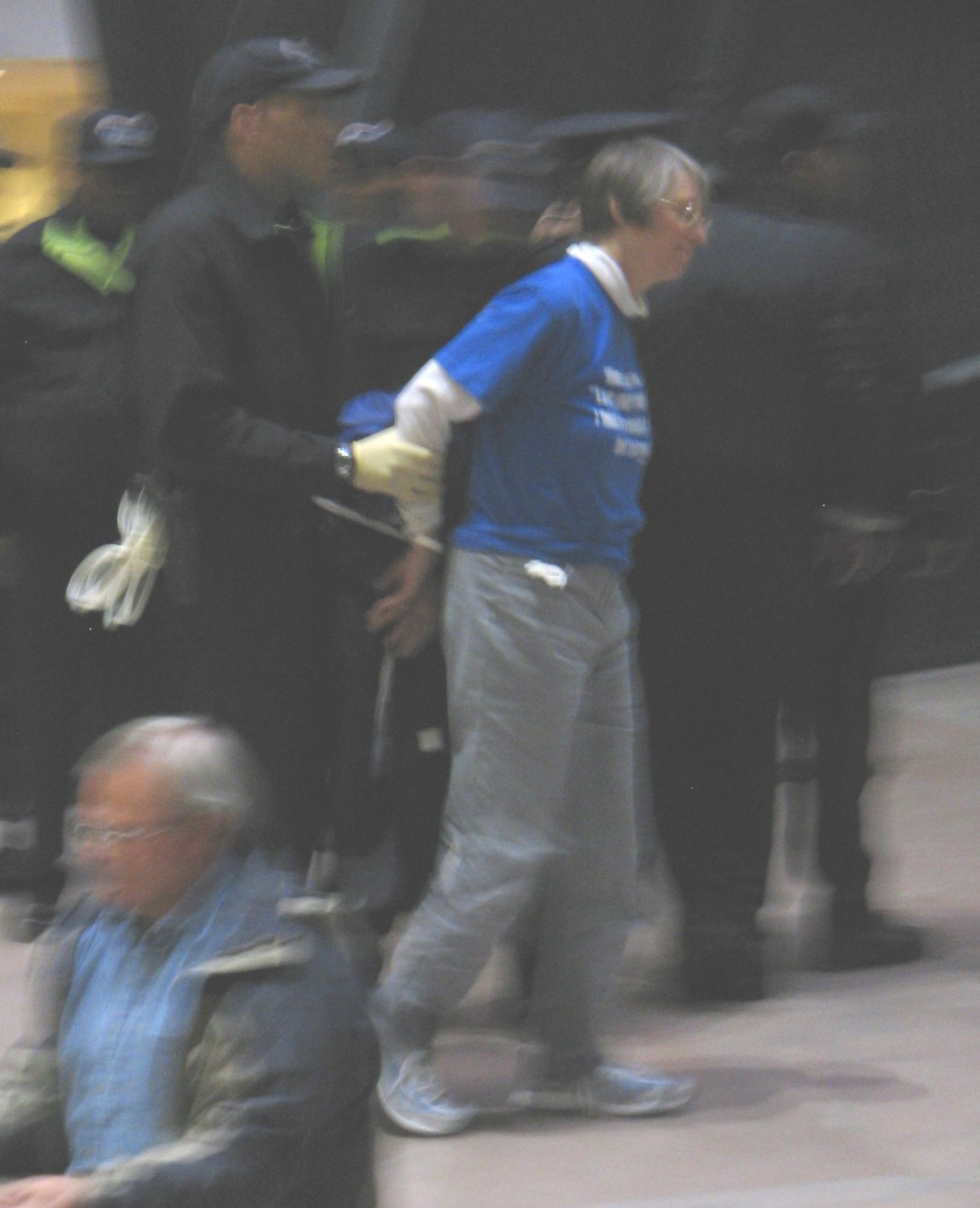 Protestor being arrested in Hart Senate Office Building. The words on the subject's shirt read, "When Jesus said 'Love your enemies' I think he meant don't kill them." Photo by Vic Reinhart, March 7, 2008